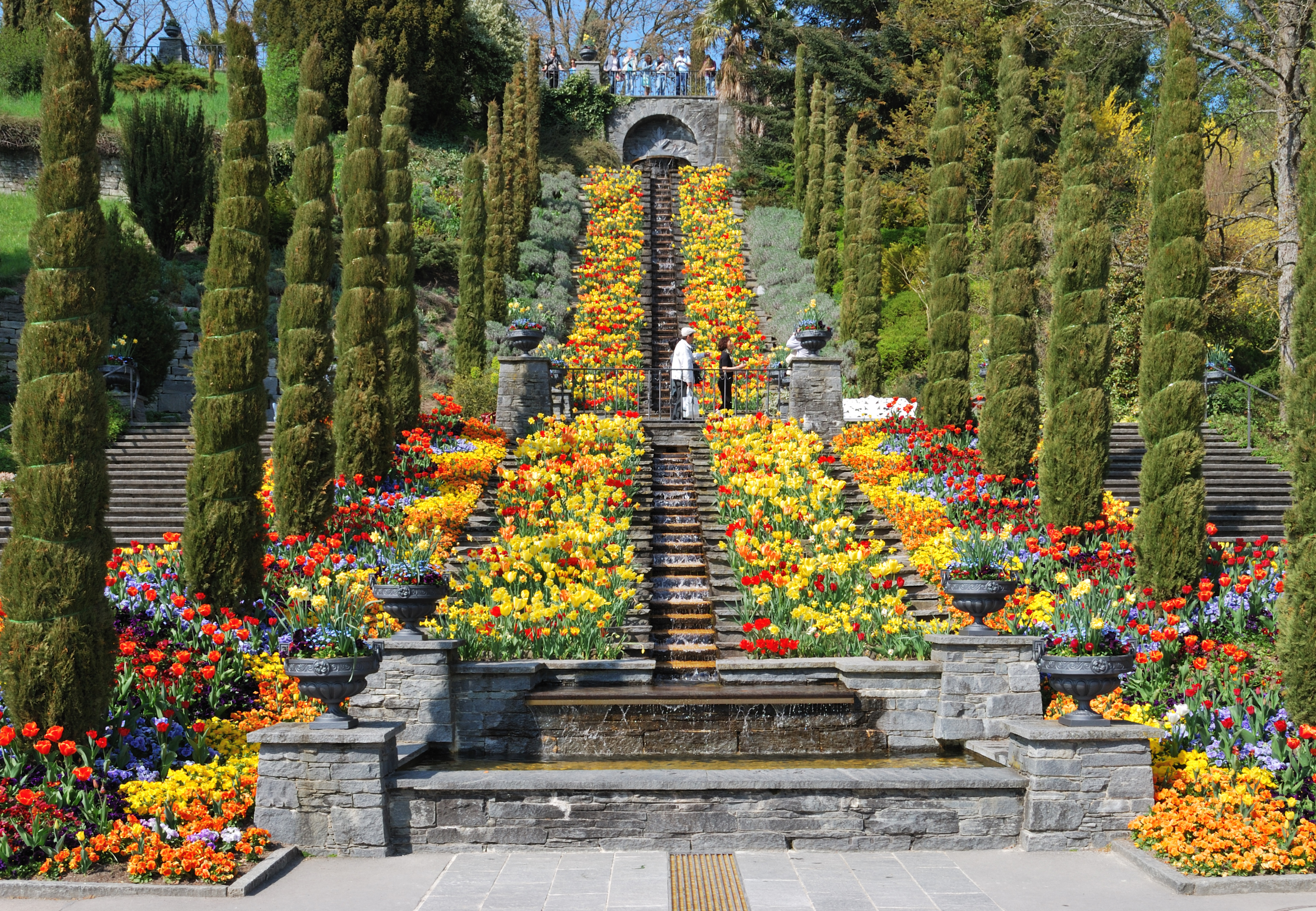 The Italian water steps at the island of Mainau during the tulip blooming 2010.